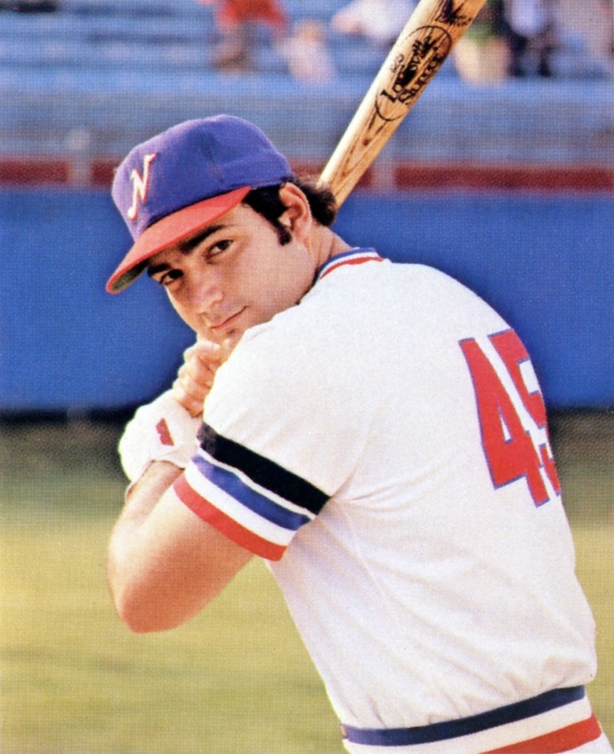 First baseman Steve Balboni of the 1980 Nashville Sounds Minor League Baseball team of the Southern League